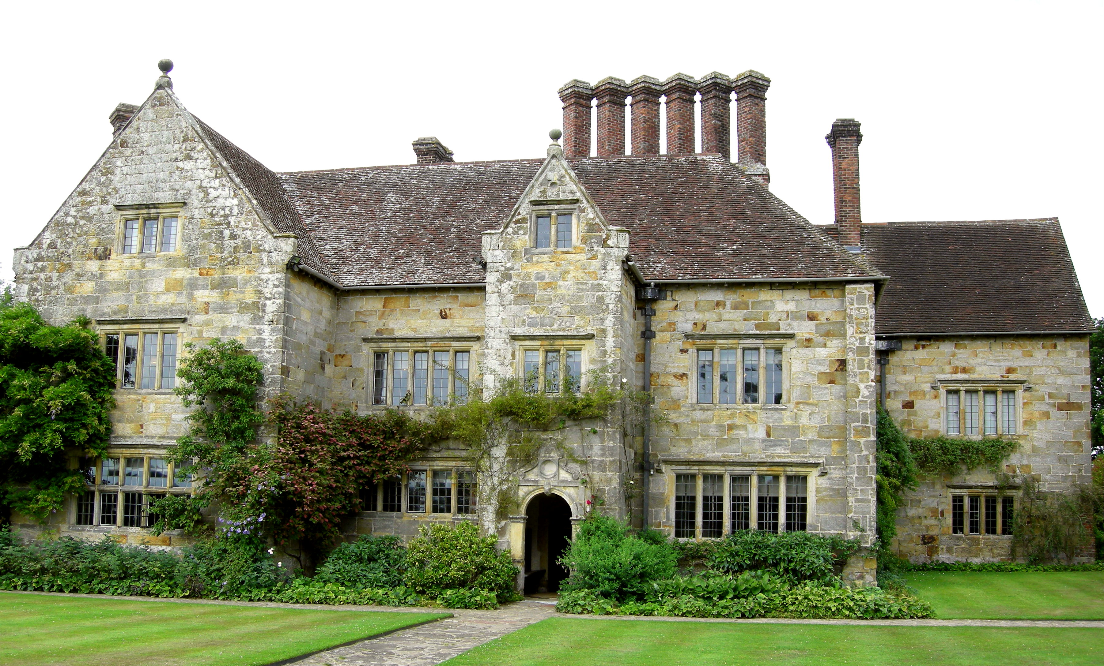 Batemans, Sussex, England.